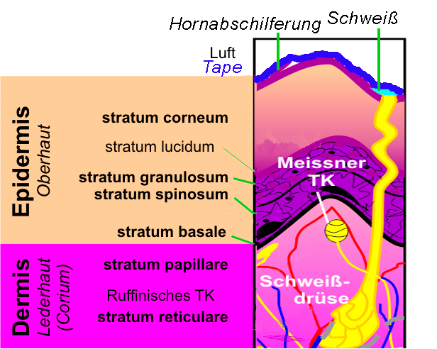 Schematics of external human skin depicting its inner structure Provided by the medOCT-group at the Centre of biomedical Technology and Physics, Medical University Vienna License